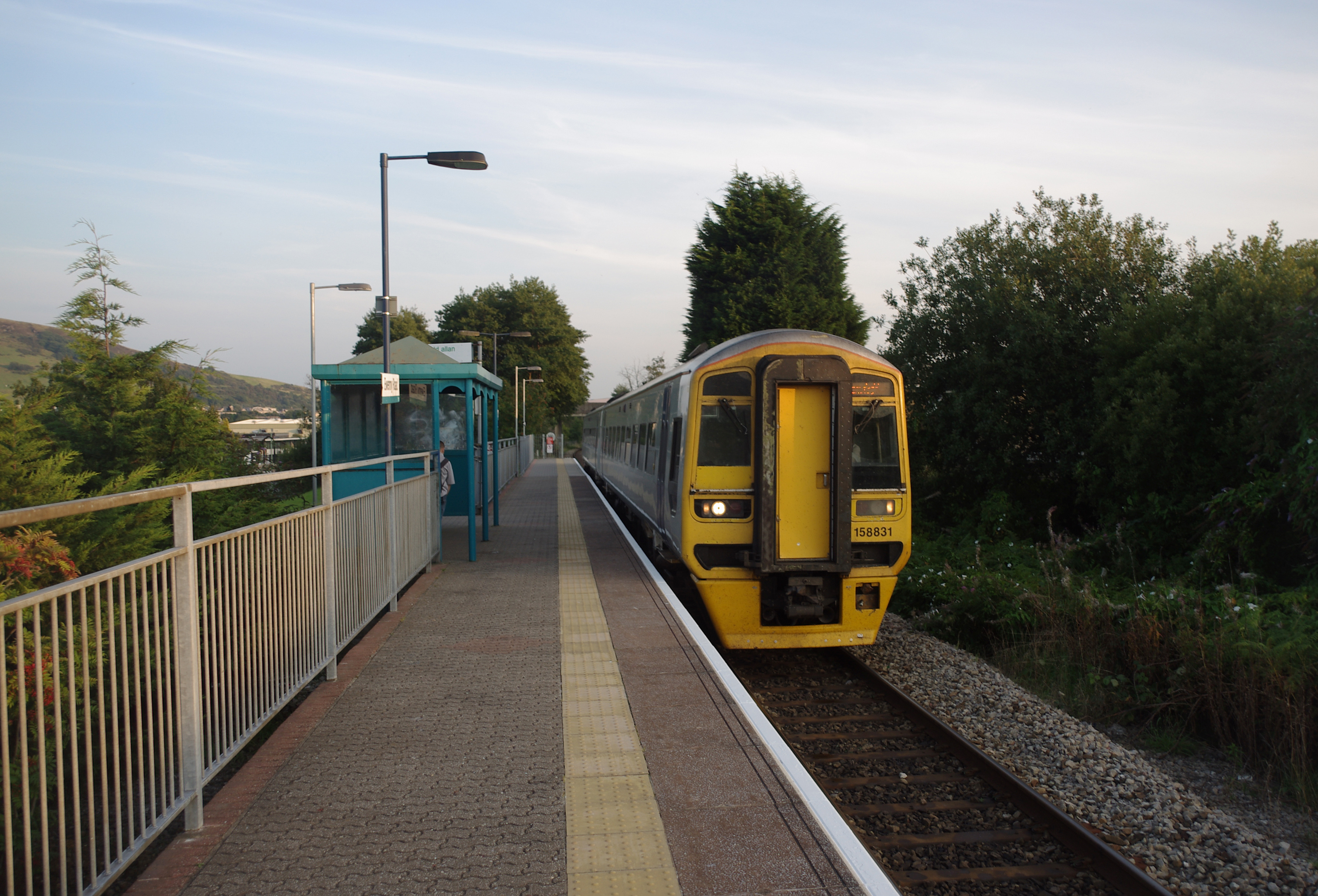 Arriva Trains Wales 158831 departs Maesteg (Ewenny Road), headed for Maesteg.